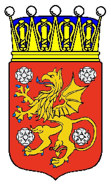 Östergötlands landskapsvapen med krona This depiction of a coat of arms is not the same as the one used by the relevant municipality, authority or organisation. This heraldic coat of arms was drawn based on its written description called the blazon. Any illustration conforming with the insignia's written blazon is considered to be heraldically correct. In other words, there can exist several different artistic interpretations of the same coat of arms. The official illustration used by the municipality/authority/organisation is most likely protected by copyright and cannot be used here.